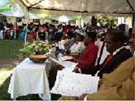 one of the activities at a school function :improved